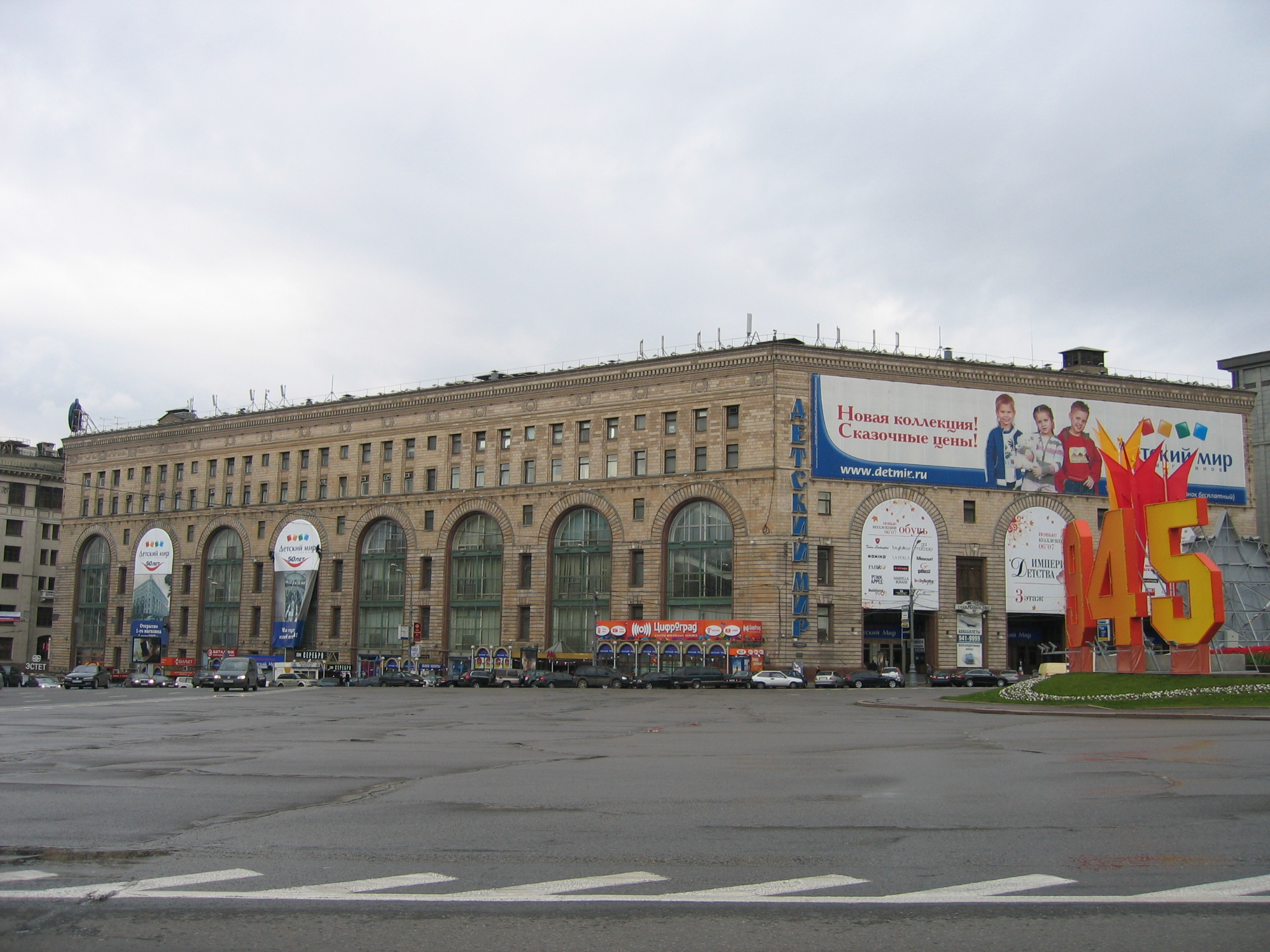 Detskiy Mir department store in Moscow, Lubyanka square